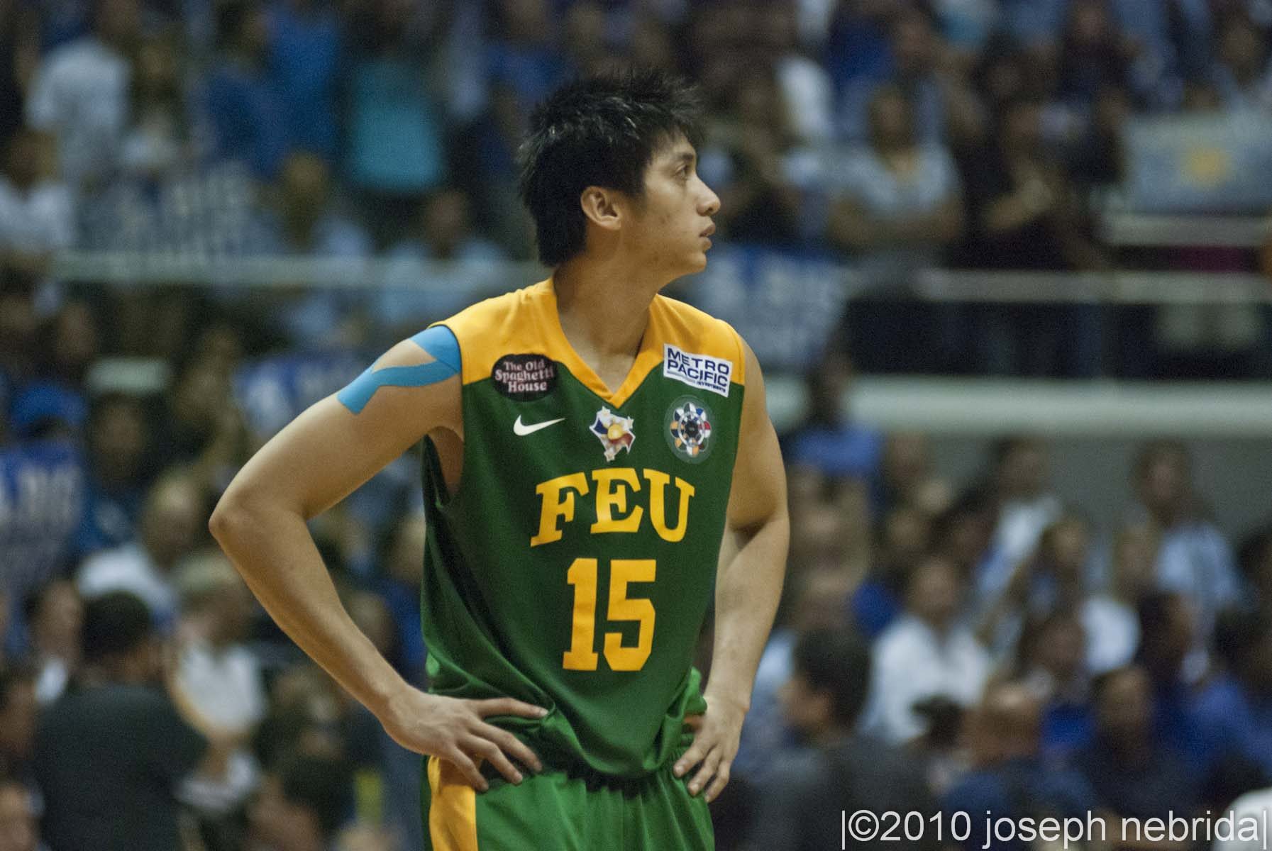 JR Cawaling